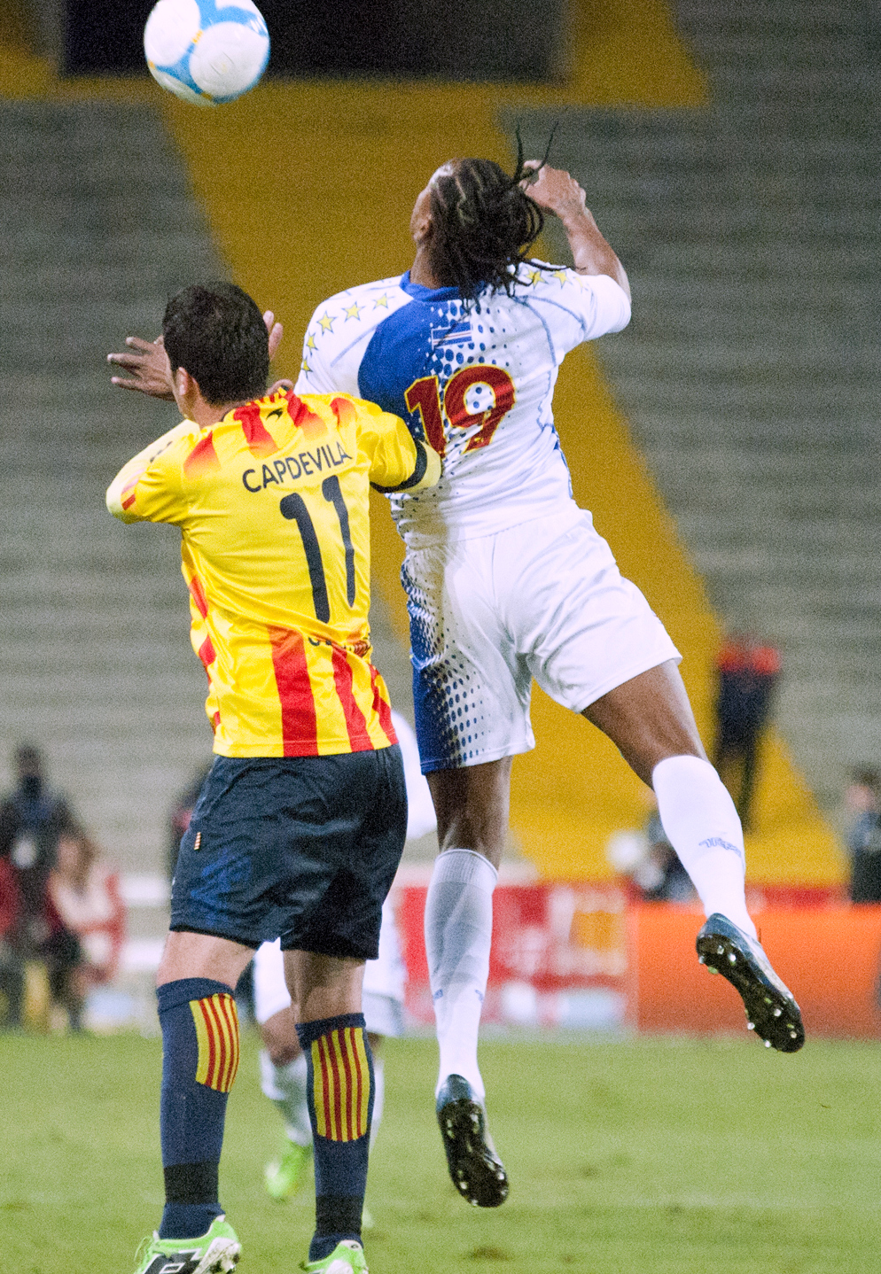 Catalonian football player Joan Capdevila and Cape Verdean international Ramilton Jorge Santos do Rosário (Rambé) during friendly match Catalonia vs. Cape Verde